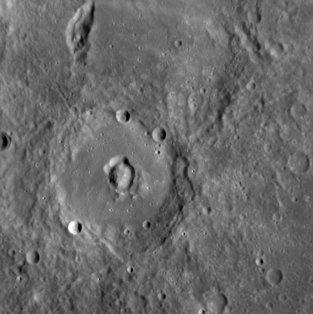 Capote crater (near center) on Mercury, with about half of Kipling crater at top. MESSENGER Narrow Angle Camera image. North is up. Width is about 193 km. Emission Angle: 15.1 Incidence Angle: 60.1 Latitude: -20.7 Longitude: 72.9 Phase Angle: 45.0